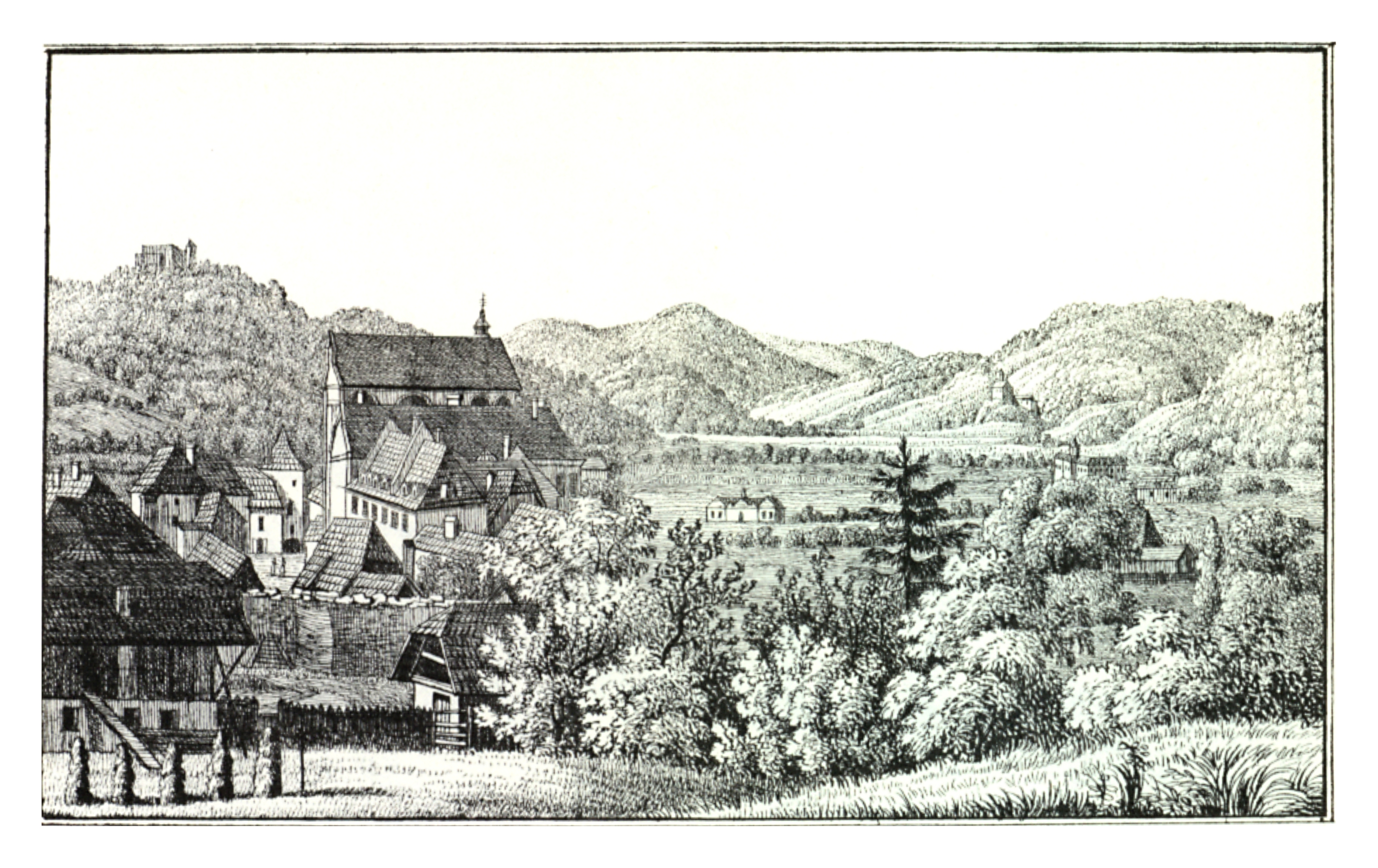 J. F. Kaiser - lithographirte Ansichten der Steyermärkischen Städte, Märkte und Schlösser Graz, 1825 Joseph Franz Kaiser (1786–1859) Alternative names J. F. KaiserDescriptionAustrian printer and editorDate of birth/death 11 March 1786 19 September 1859Location of birth/death Graz (Styria) GrazAuthority control : Q1499963 VIAF: 30629353 ISNI: 0000 0000 3083 0153 LCCN: n87141671 GND: 129880159 NLP: A24960305 WorldCat creator QS:P170,Q1499963 Scanprojekt Community Projektbudget 2012 This scan or this PDF-file was created within the GLAM-project Bookscanning, supported by Wikimedia Germany and Wikimedia Austria as a part of the community-project to capture books, documents and pictures which are not eligible to copyright or for which the copyright has expired. This document describes or depicts an object which is located in Austria today. Send requests for uncompressed scans to Hubertl. This work is in the public domain in its country of origin and other countries and areas where the copyright term is the author's life plus 100 years or less. You must also include a United States public domain tag to indicate why this work is in the public domain in the United States. This file has been identified as being free of known restrictions under copyright law, including all related and neighboring rights.